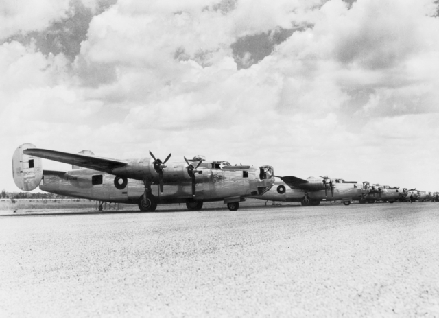 Australian War Memorial image NWA0725. No. 82 Wing RAAF B-24 Liberators at Fenton, Northern Territory